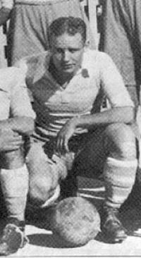 Picture of Roger Couard, an ancient player of football to Racing Universitaire d'Alger team